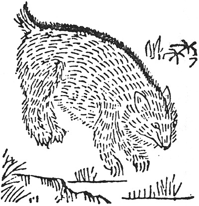 Mami